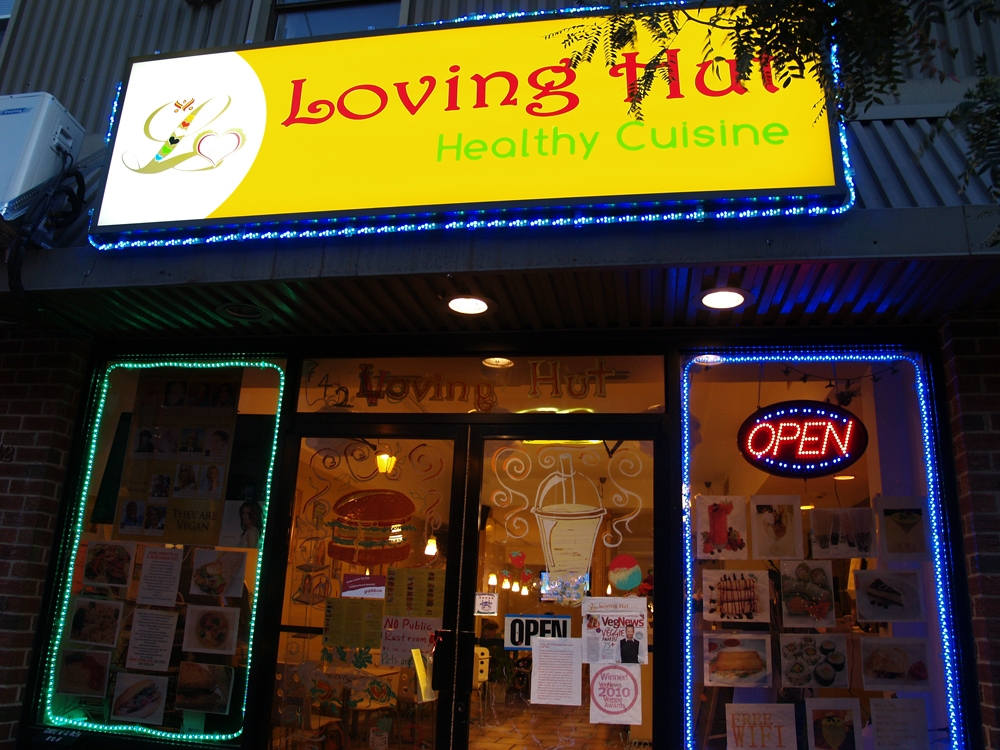 Loving Hut, a vegan food chain.